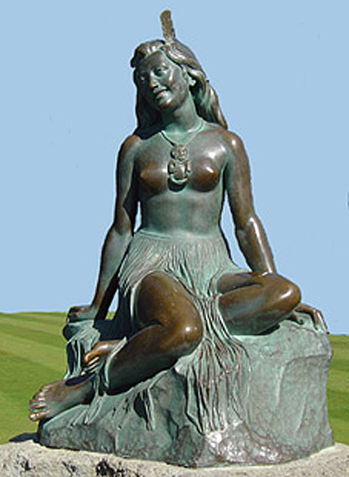 Statue of Pania